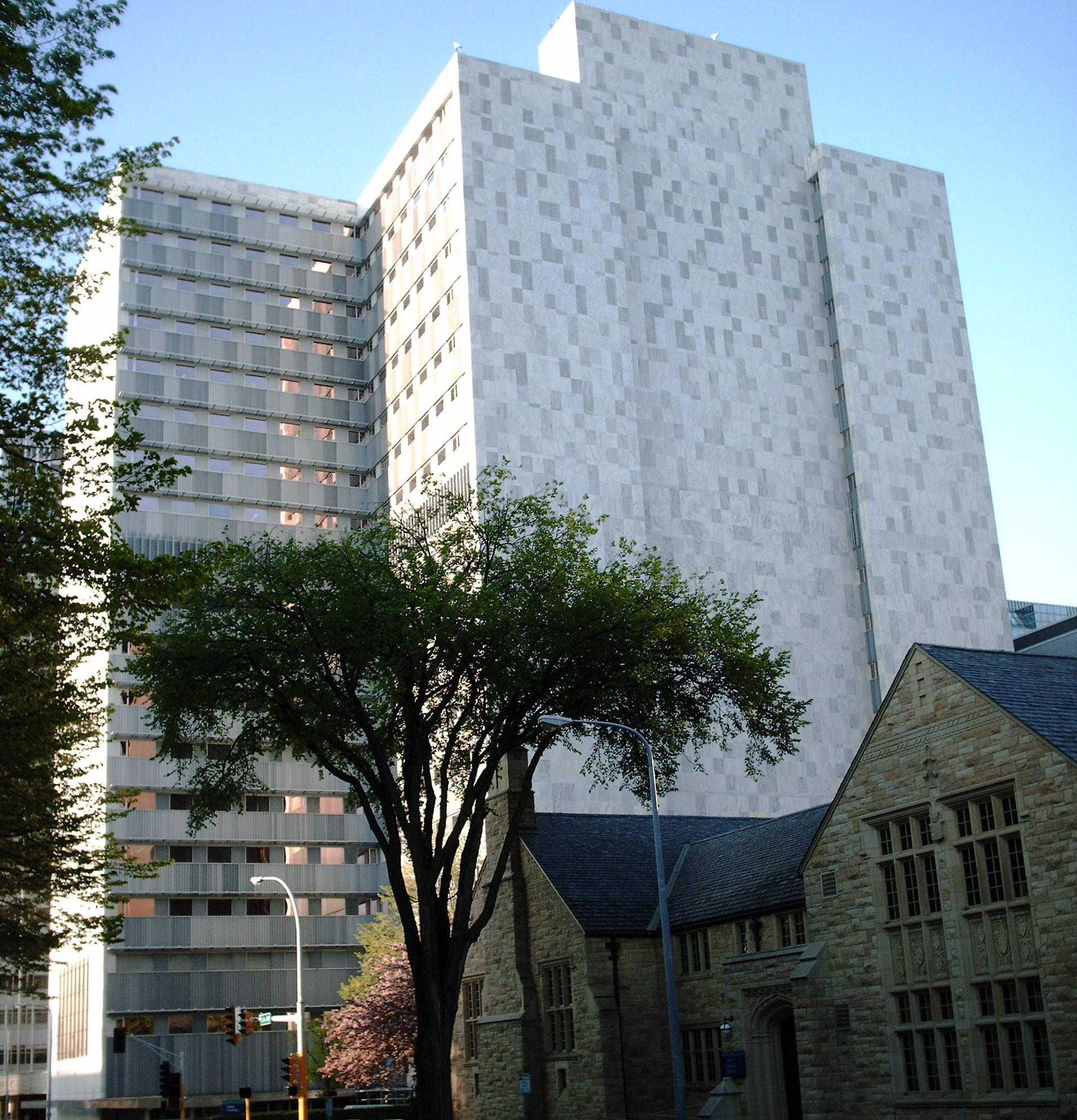 Photo I took today of Mayo Medical School with the main building of the Mayo Clinic behind it in Rochester, Minnesota. CC & GFDL.